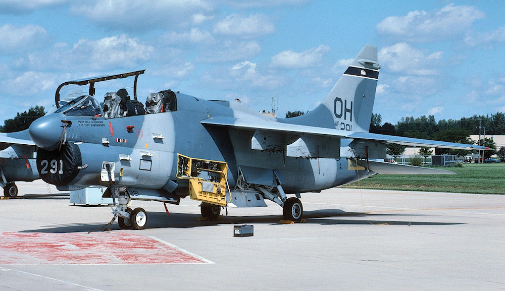 166th Tactical Fighter Squadron - Ling-Temco-Vought A-7K Corsair II* 1983: Delivered to 166th Tactical Fighter Squadron. OH Air National Guard, Rickenbacker Air National Guard Base, Columbus (c/n K-020) Transferred to 112th Tactical Fighter Squadron, OH Air National Guard, 1984 Transferred to 125th Tactical Fighter Squadron, OK Air National Guard, 1987 Transferred to 107th Tactical Fighter Squadron, MI Air National Guard, 1987 Transferred to 166th Tactical Fighter Squadron, OH Air National Guard, 1992 Transferred to AMARC as AE0216 Sep 24, 1992. Disposition:14-JUN-01 / Transferred to USN Inventory as PCN AN6A0437